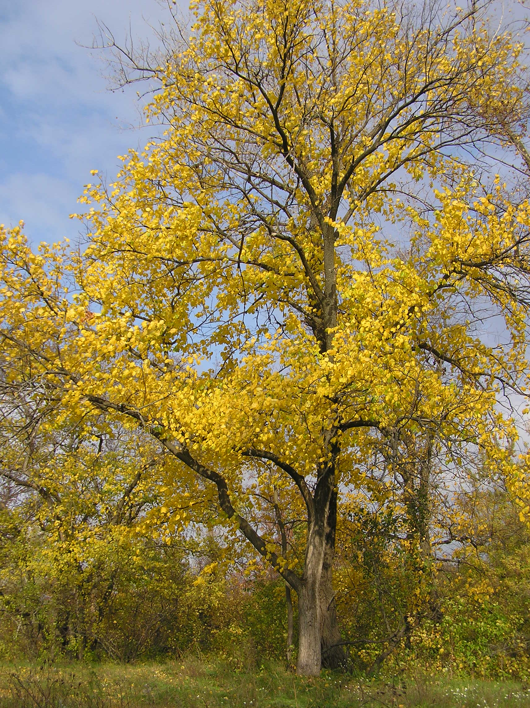 Ulmus laevis Pall. (Russian Elm, European White Elm, Fluttering Elm, Spreading Elm) in fall colors. Habitat: bottomland deciduous forest near Volgograd Reservoir (Volga). Engelssky District, Saratov Oblast, Russia.